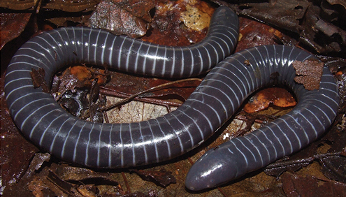 Anurans from the RPPN Serra Bonita, Bahia State, Northeastern Brazil. a Physalaemus camacan b P. erikae c Chiasmocleis crucis d Stereocyclops histrio e Stereocyclops incrassatus f Odontophrynus carvalhoi g Proceratophrys renalis h P. schirchi and i Siphonops annulatus.